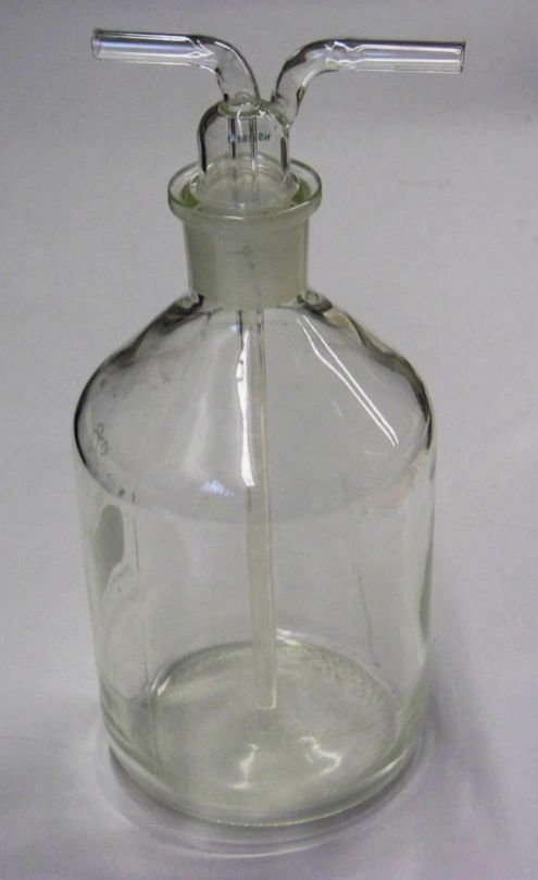 Gas-washing Bottle